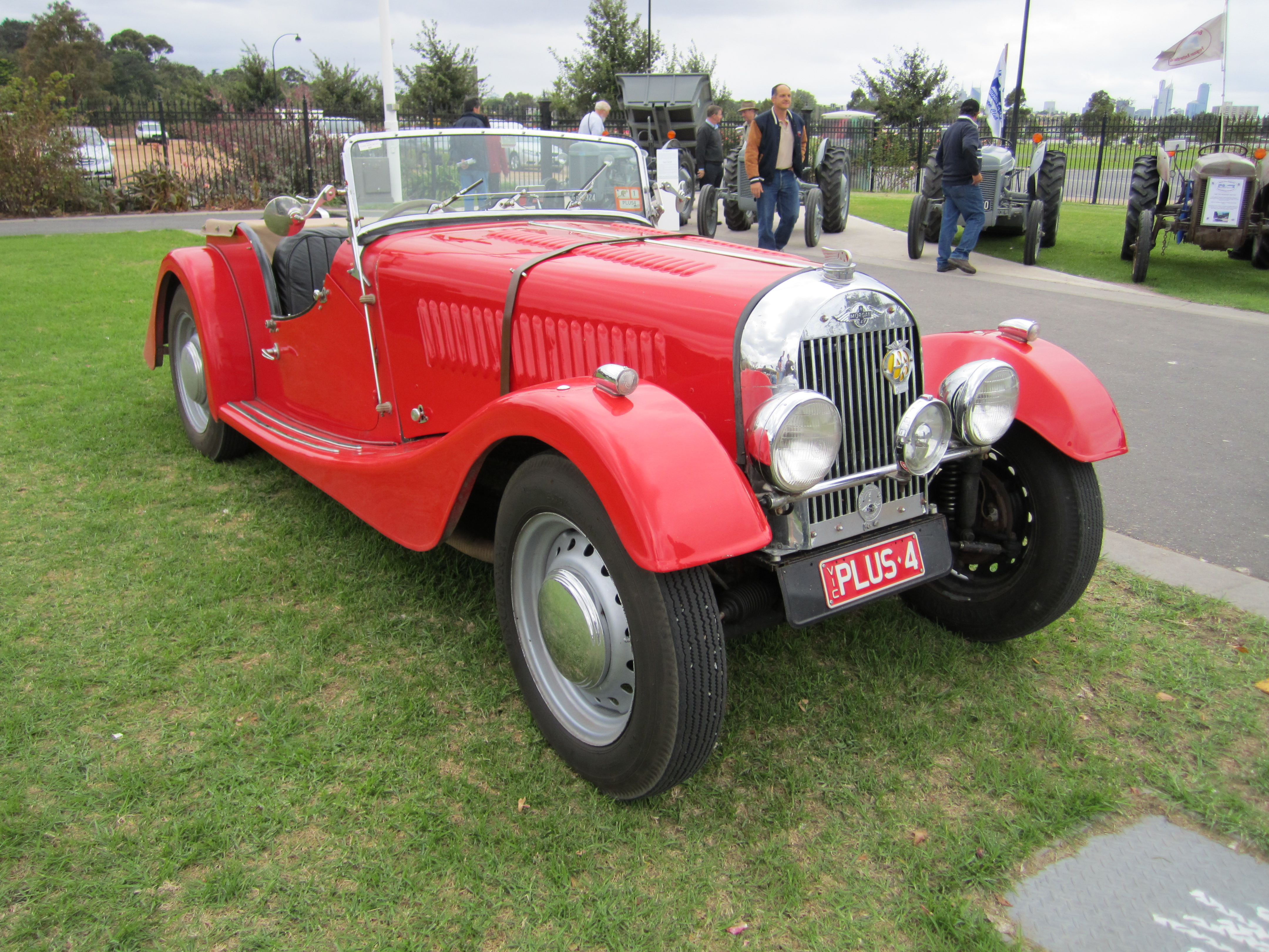 Morgan +4 Series I. (The badge above the radiator grille indicates that this is a +4 rather than a 4-4)